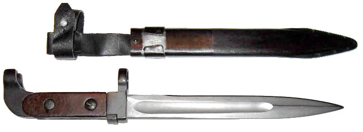 6H3 bayonet and scabbard of the AK-47 assault rifle.